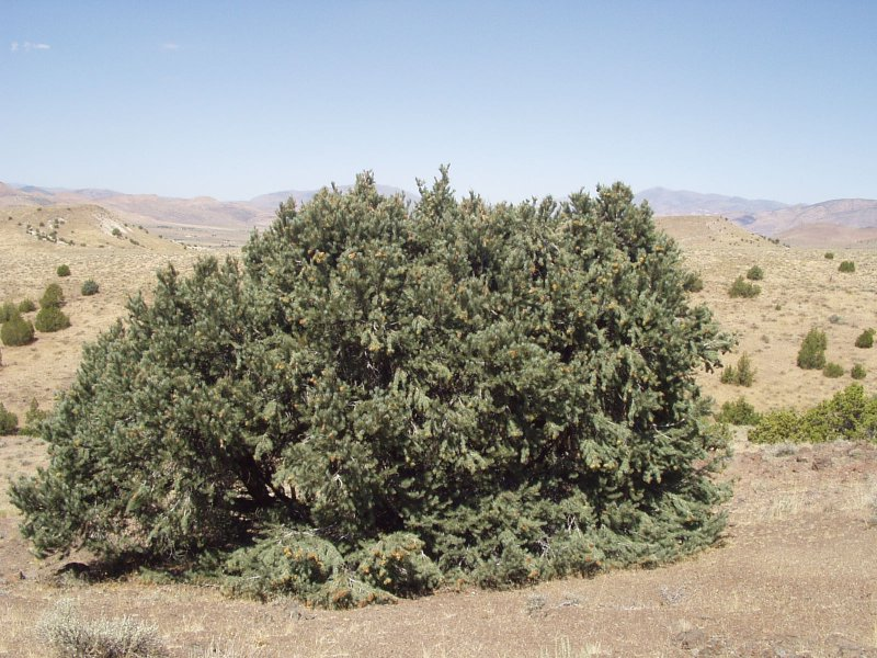 Pinus monophylla, Single-leaf Pinyon, west slope of Pah Rah Range at approx. 5000 ft. elevation. At or near northwest limit of distribution.